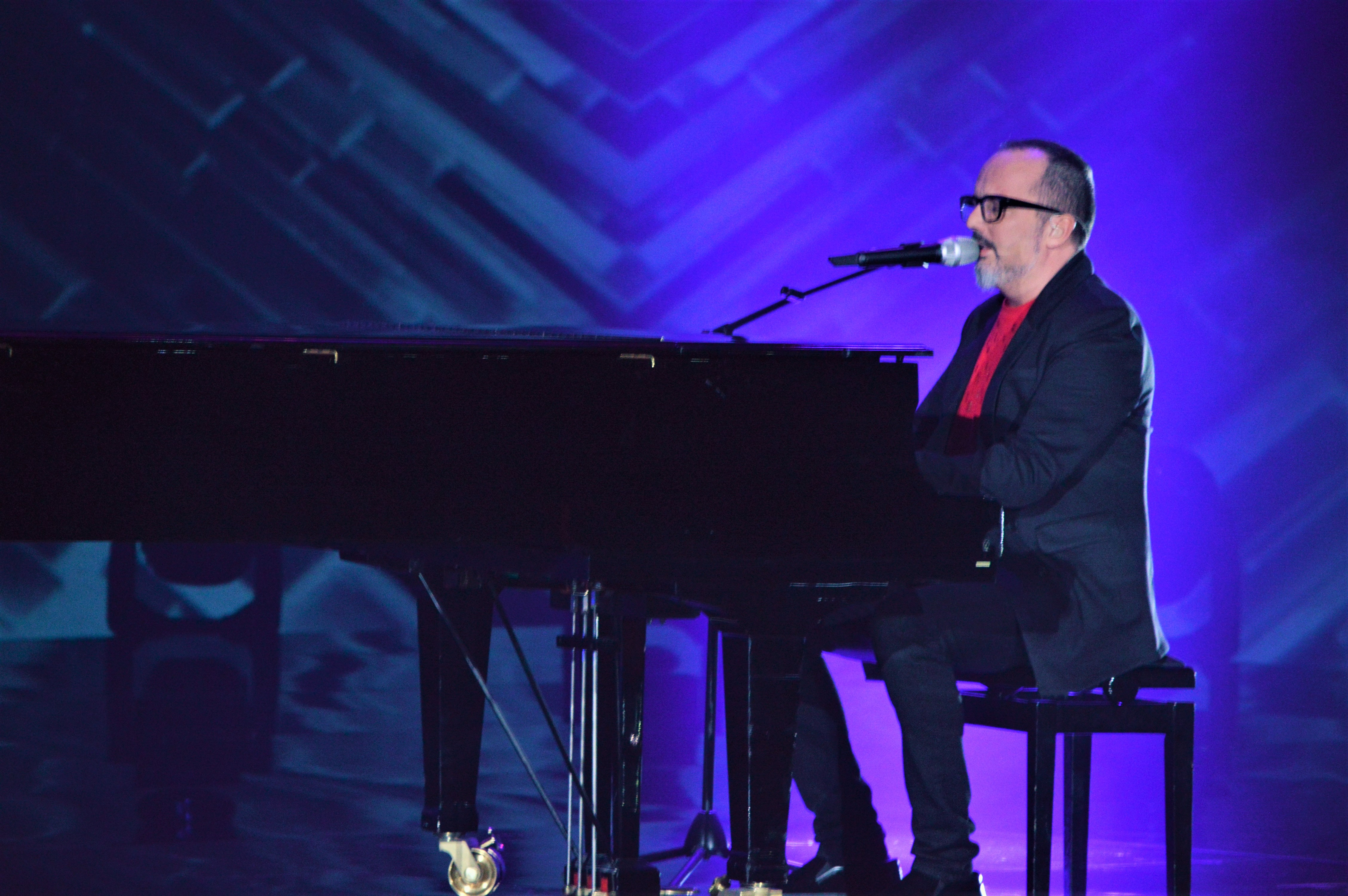 The guest performer of the Slovenian EMA 2017: Tony Cetinski from Croatia